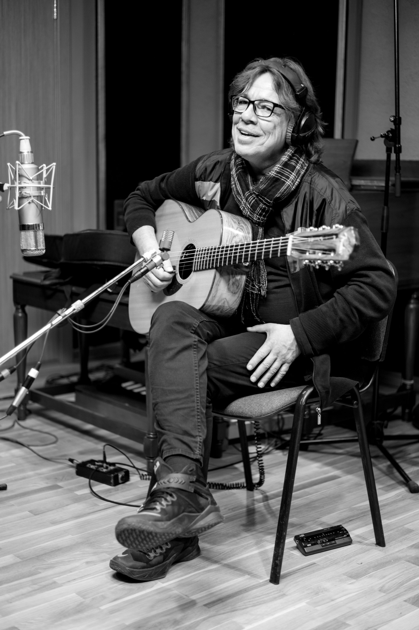 Иван Смирнов на записи в тонстудии Мосфильма 14 ноября 2016 года